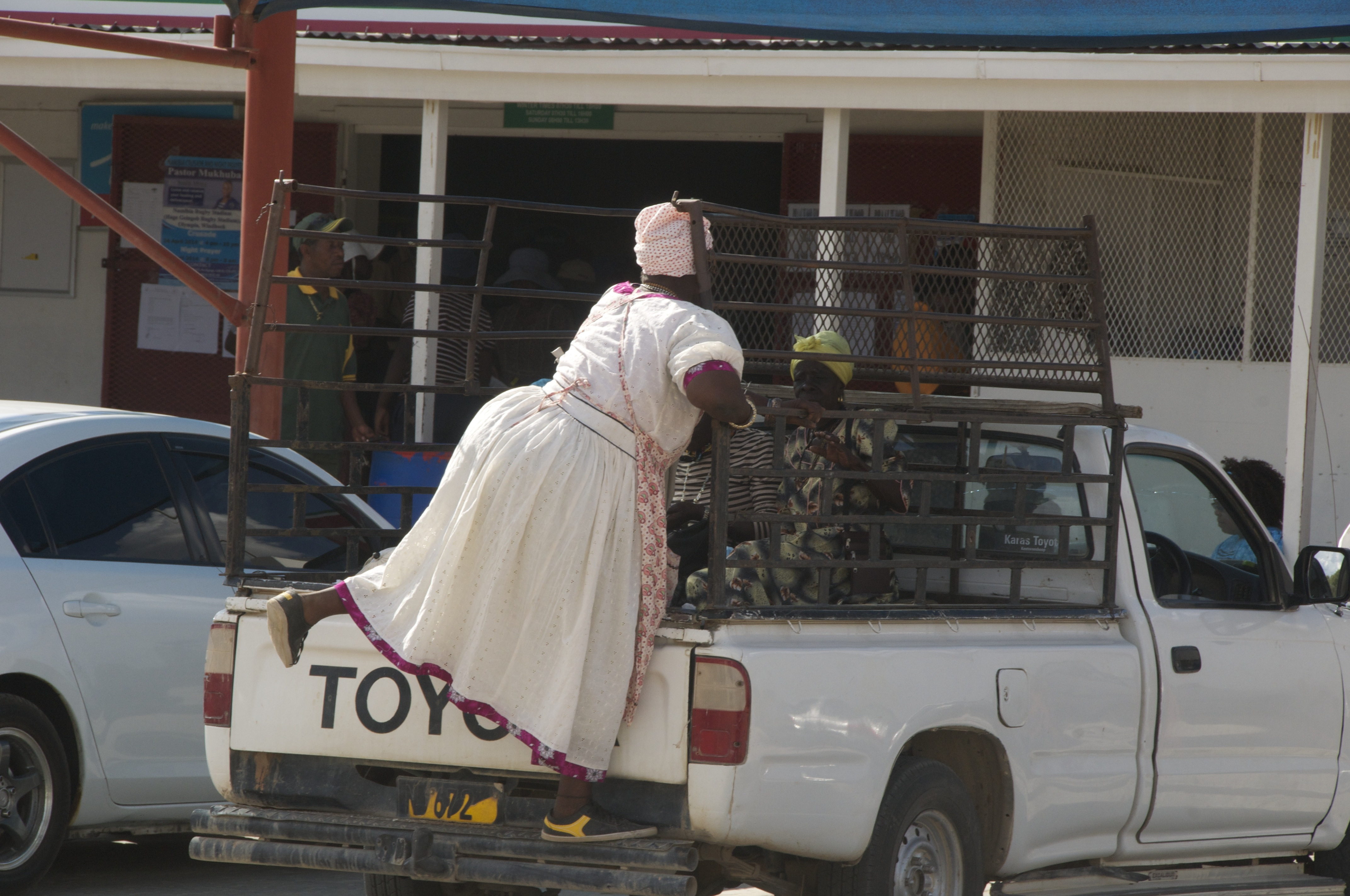 This is an image with the theme "Africa on the Move or Transport" from: Namibia